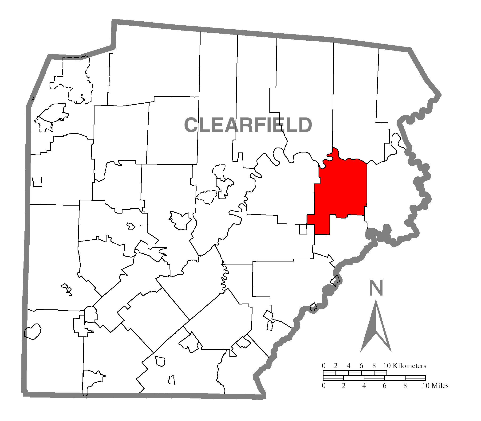 A map of Clearfield County showing Graham Township, Pennsylvania (alternate) highlighted on the map.